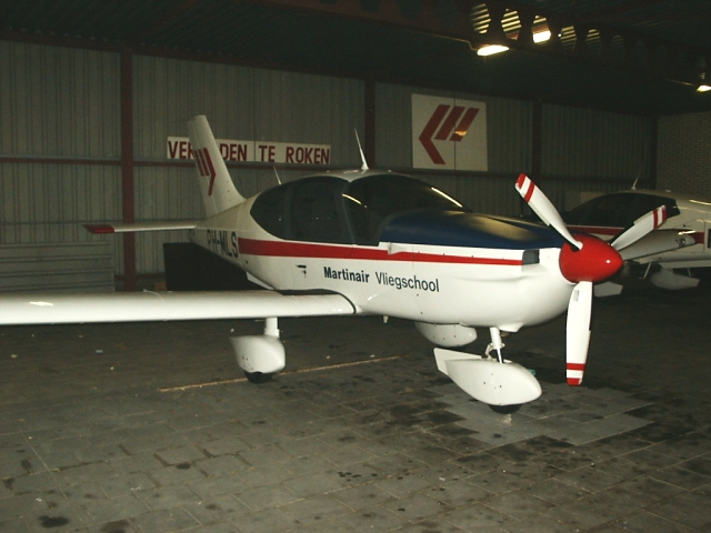 Socata TB-10 Tobago GT owned by Martinair Vliegschool.